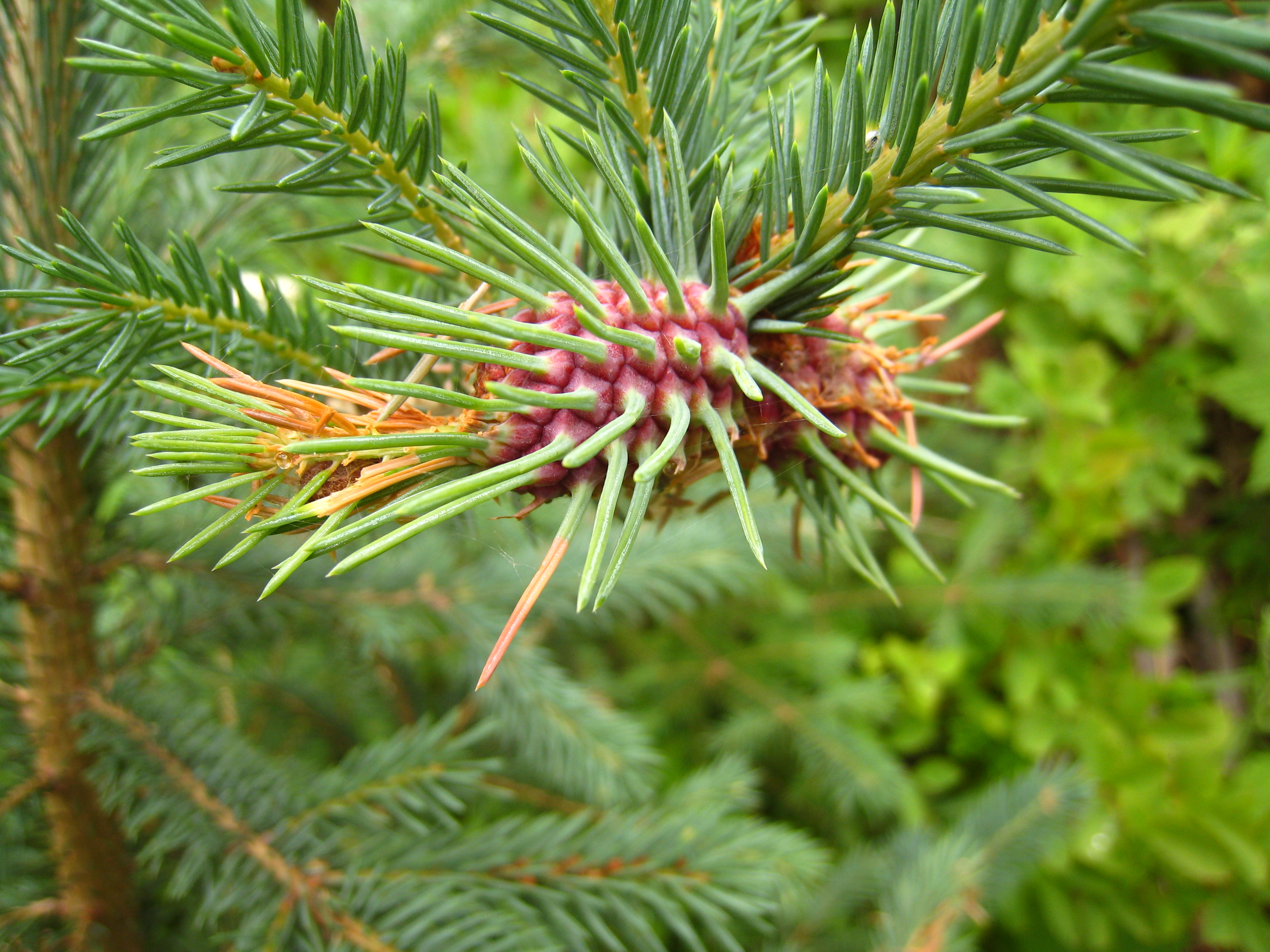 Picea engelmannii shoot with gall caused by Adelges cooleyi. Trout Lake, Cascades mountains, Washington.